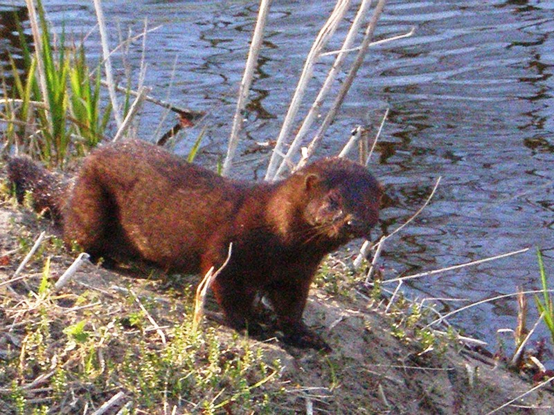 Mustela vison taken by me in Kėdainiai district, Lithuania